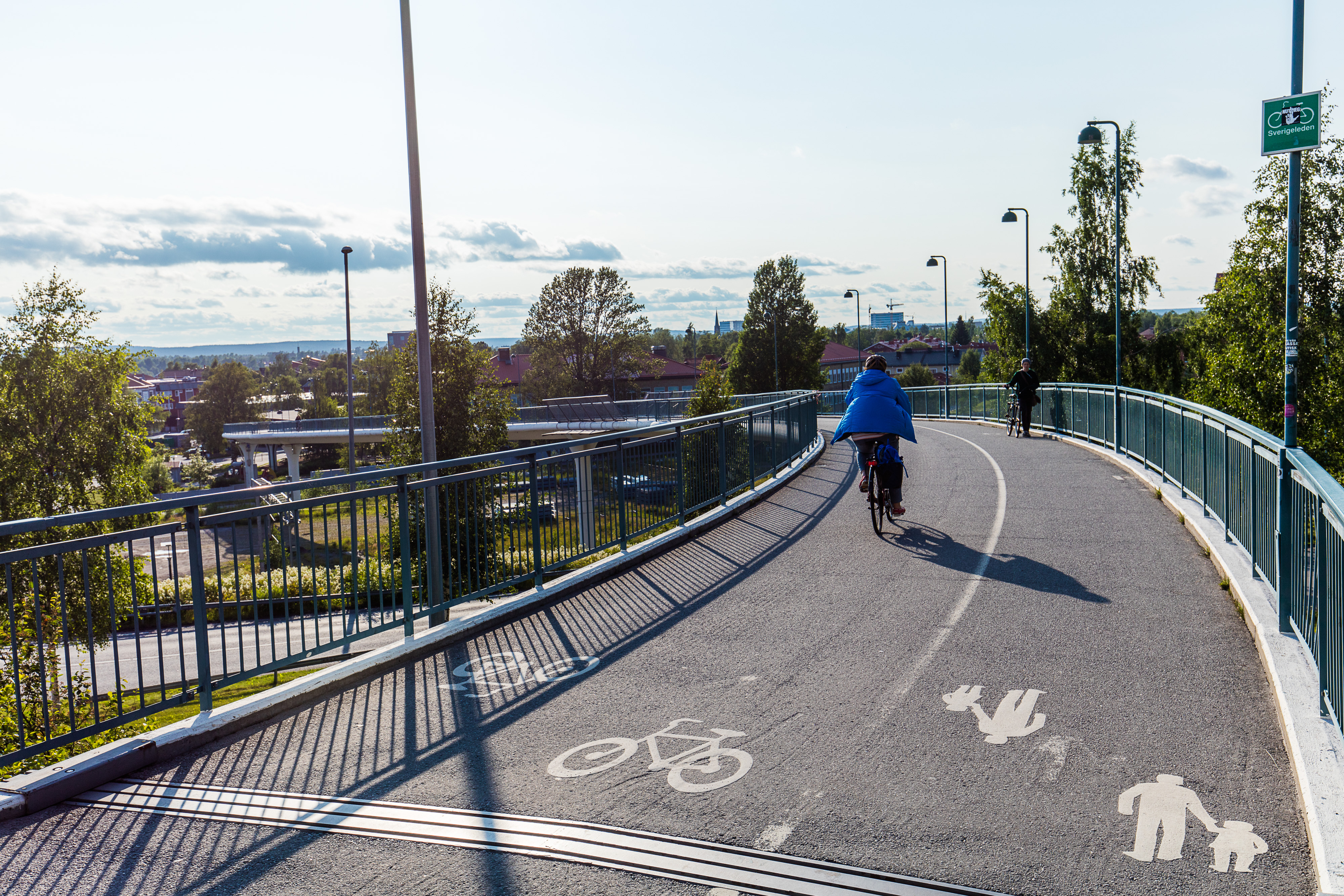 Svingen is the longest bicycle bridge in Umeå, linking the University and hospital areas with Östermalm and the city centre.